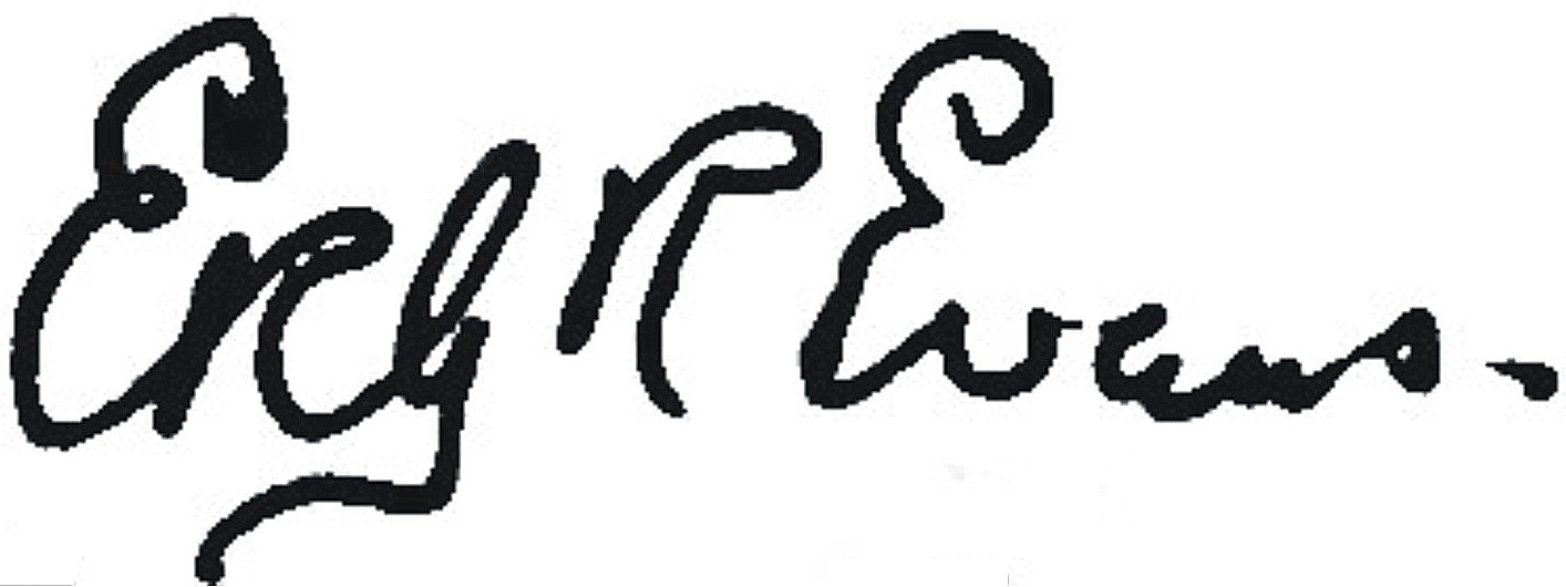 Signature of Edward Ratcliffe Garth Russell Evans, 1st Baron Mountevans, member of the Terra Nova Expedition (1910-1913)